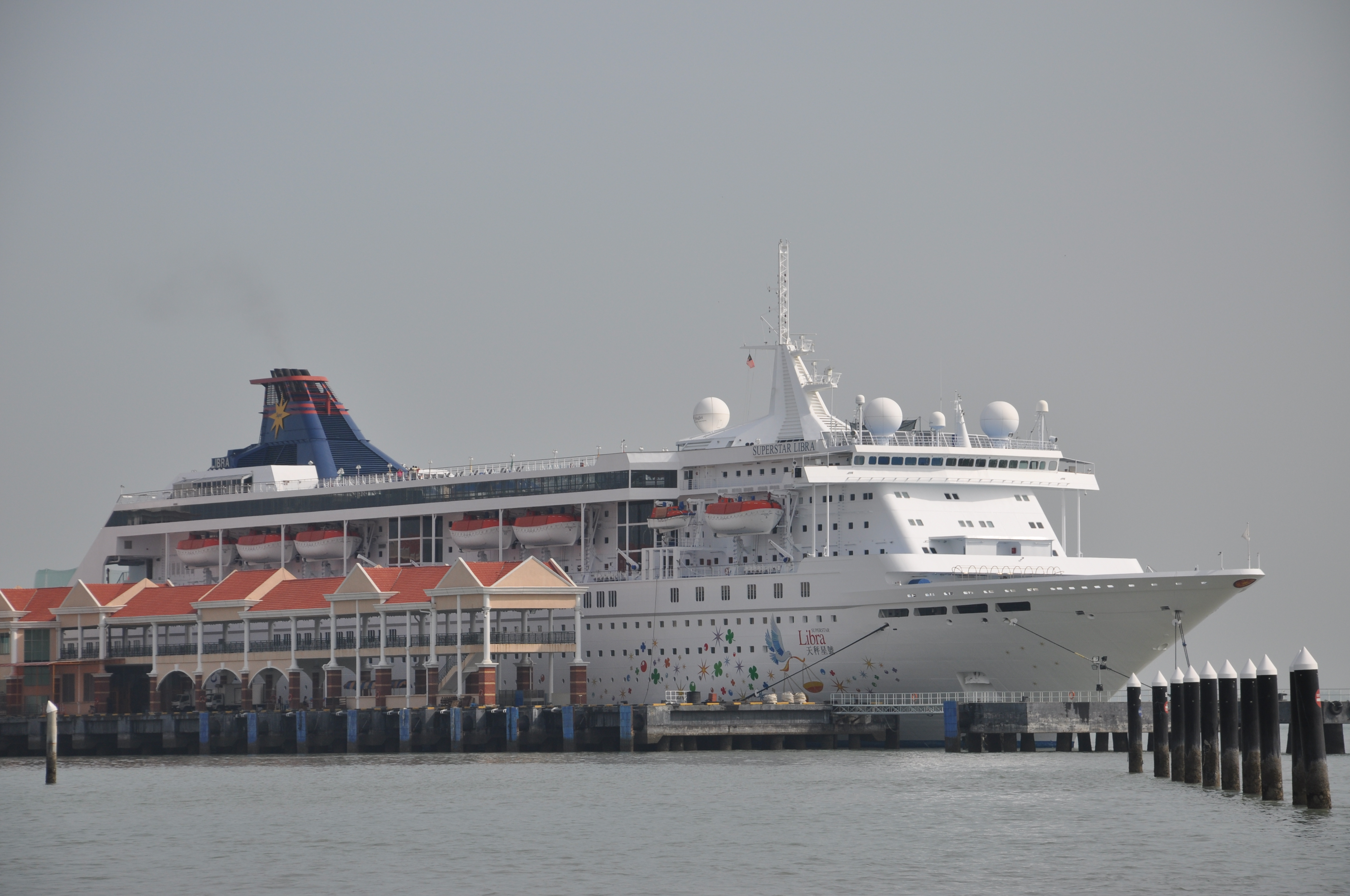 A massive cruise liner alongside As we prepare to cast off, I suddenly noticed this massive cruise liner berthed at the Penang cruise terminal alongside. There is no rule that you have to stay put inside your car while on the ferry. I simply had to get off and take this picture. I've seen several cruise liners, but never one this close. It looked strangely mysterious and awe inspiring to me, a feeling only reinforced further by the slight mist in the air and the pure white livery of the gargantuan ship. (Georgetown, Penang, Malaysia, Nov. 2013)